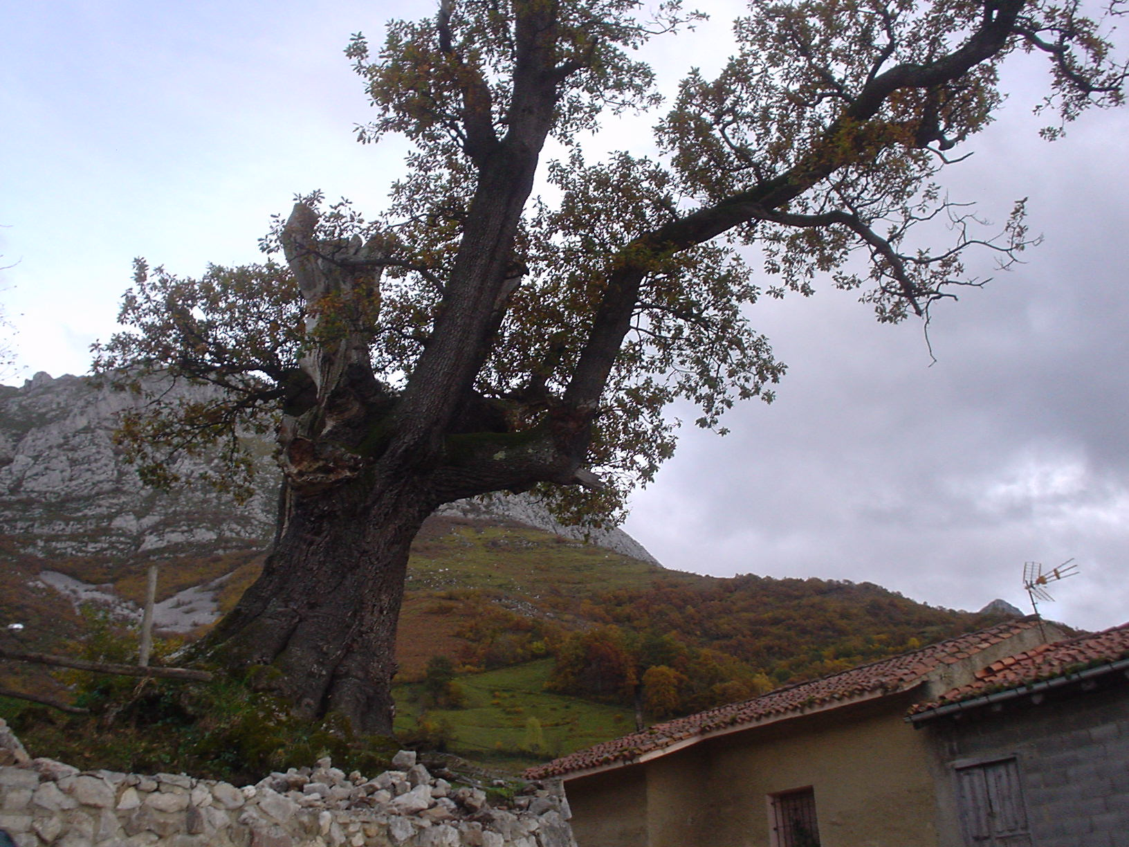 photo of a century tree